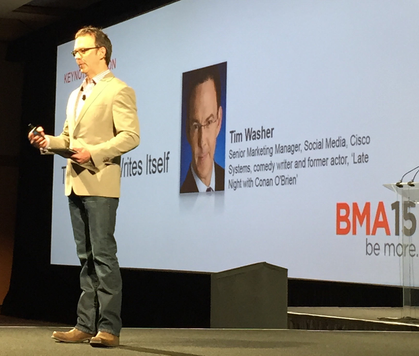 Tim Washer presents at the Business Marketing Association 2015